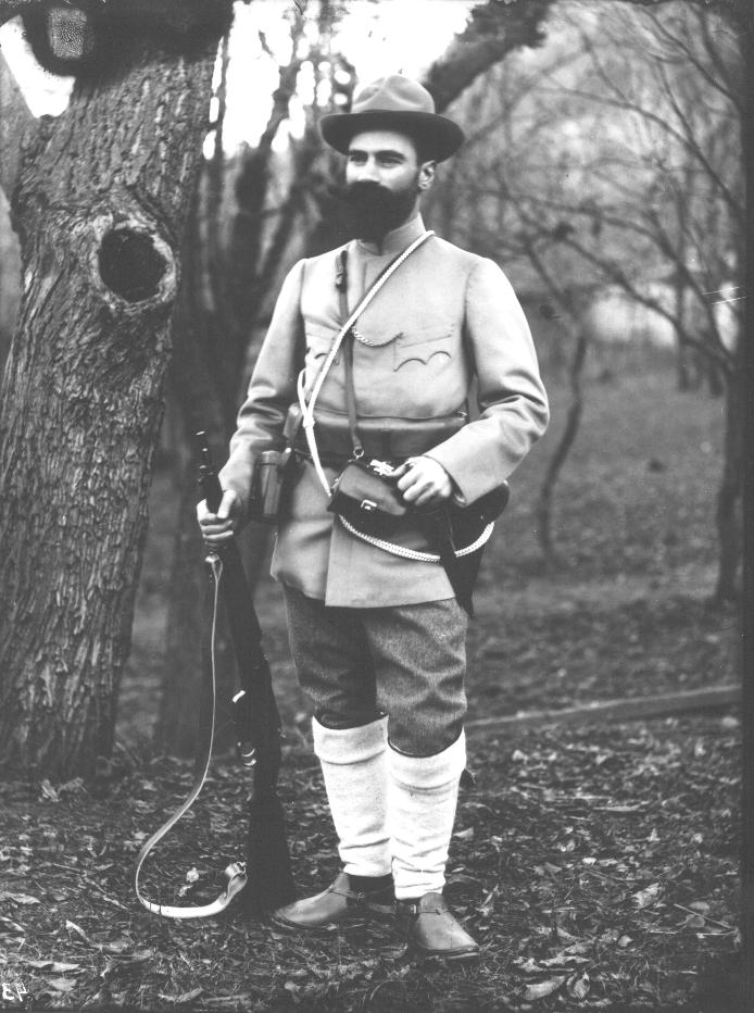 portrait of Luka Ivanov